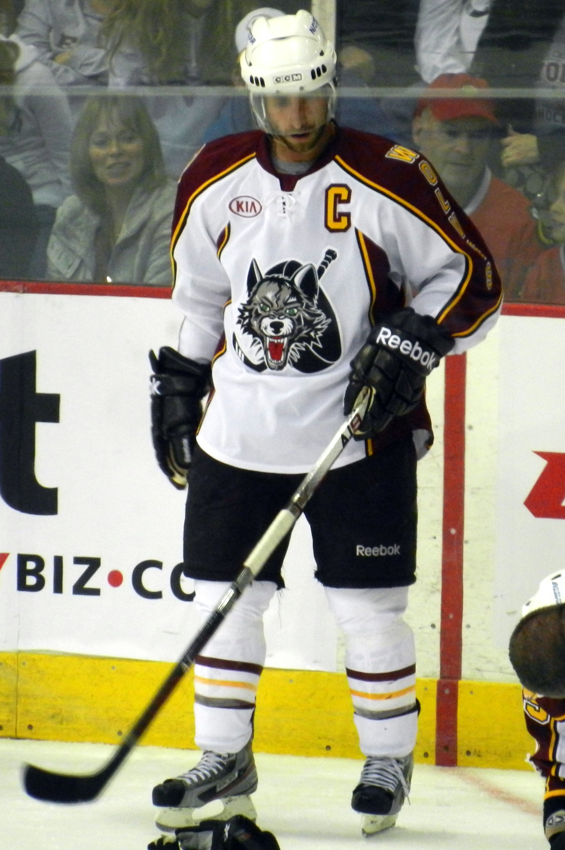 Darren Haydar playing with the Chicago Wolves during the 2012-13 AHL season